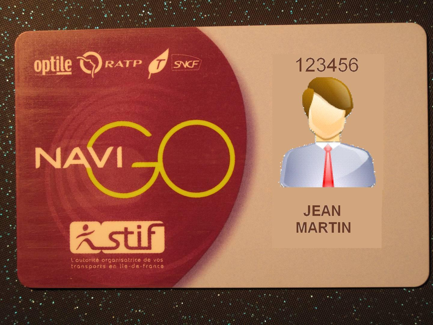 Facsimile of a Navigo pass.